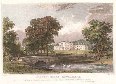 "Bicton House, Devonshire, the seat of Baron Rolle to whom this plate is most respectfully inscribed by the proprietors. Drawn by T. Allom, engraved by W. le Petit, published c. 1830